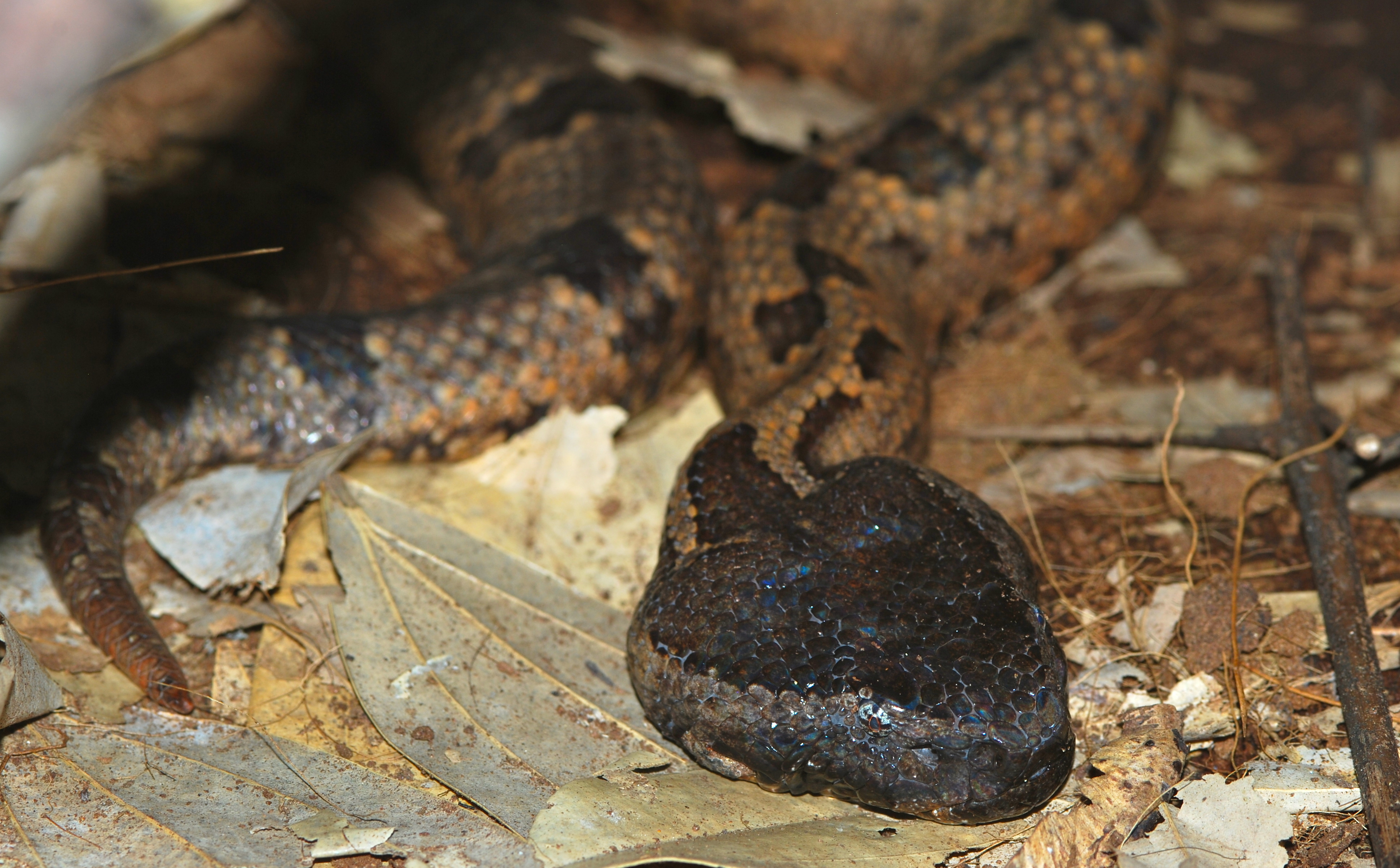 Butterfly Garden, Brinchang, Cameron Highlands, Pahang, MALAYSIA